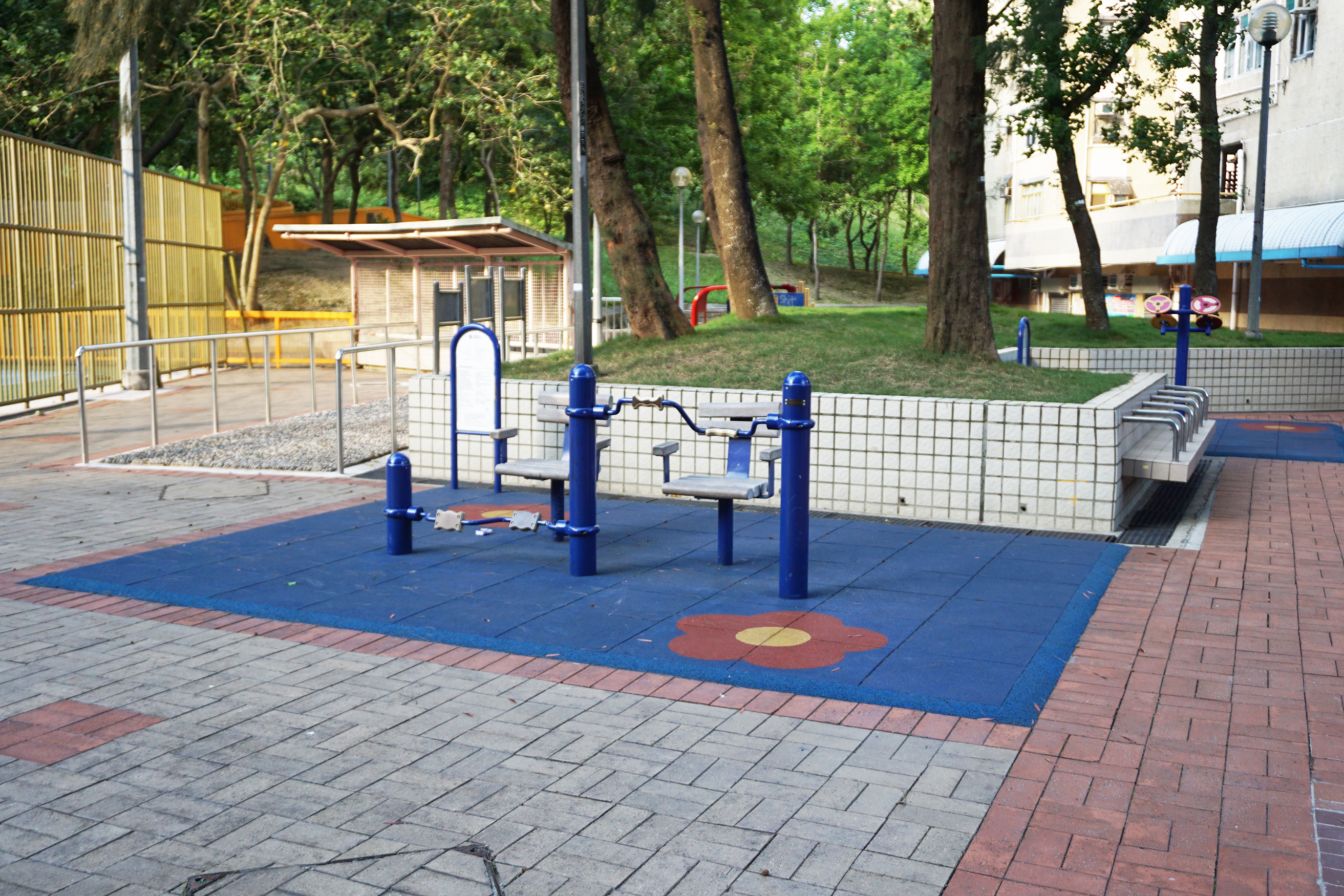 Shan King Estate in Tuen Mun, Hong Kong.